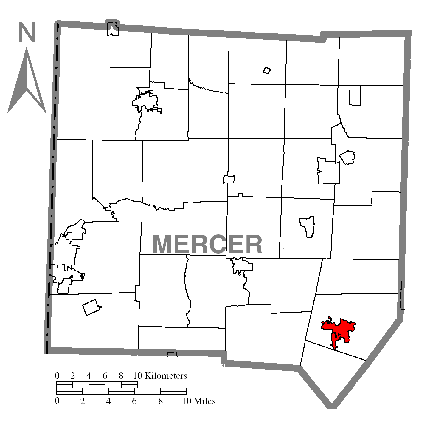 Map of Mercer County higlighting Grove City.